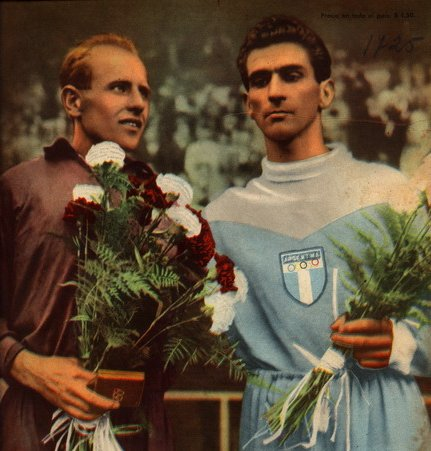 Emil Záotopek with Reinaldo Gorno, after Men's Marathon at 1952 Summer Olympics (Helsinki)